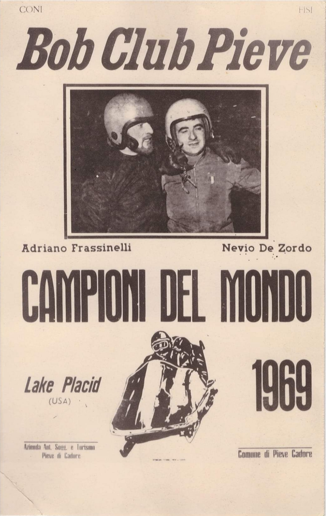 World champions poster in Lake Placid